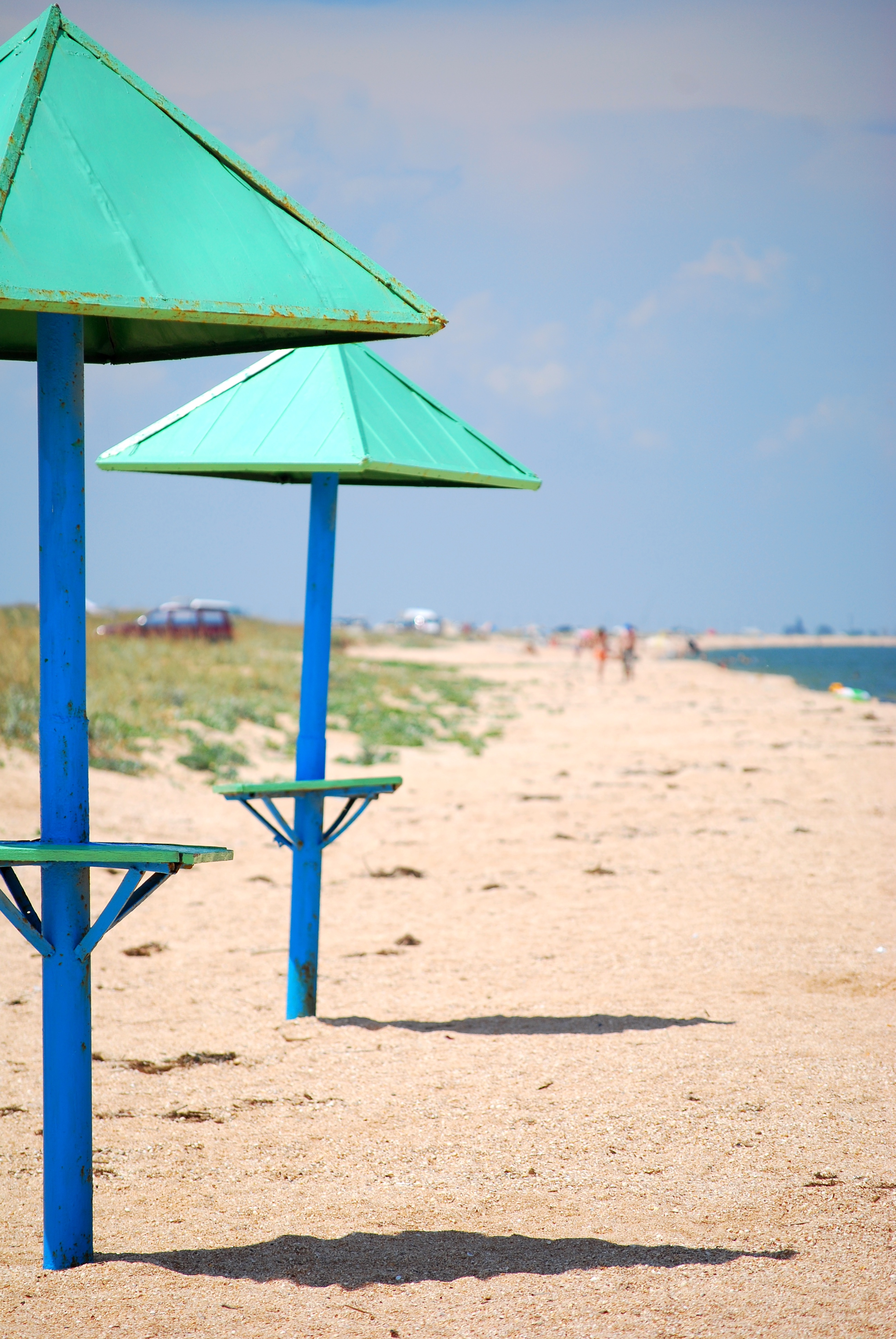 Sea of Azov. Beach on the Kerch Peninsula consists of shell detritus. Crimea, Ukraine.